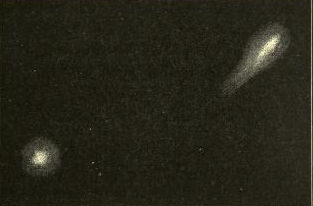 Biela's Comet on its 1852 passage, after A. Secchi